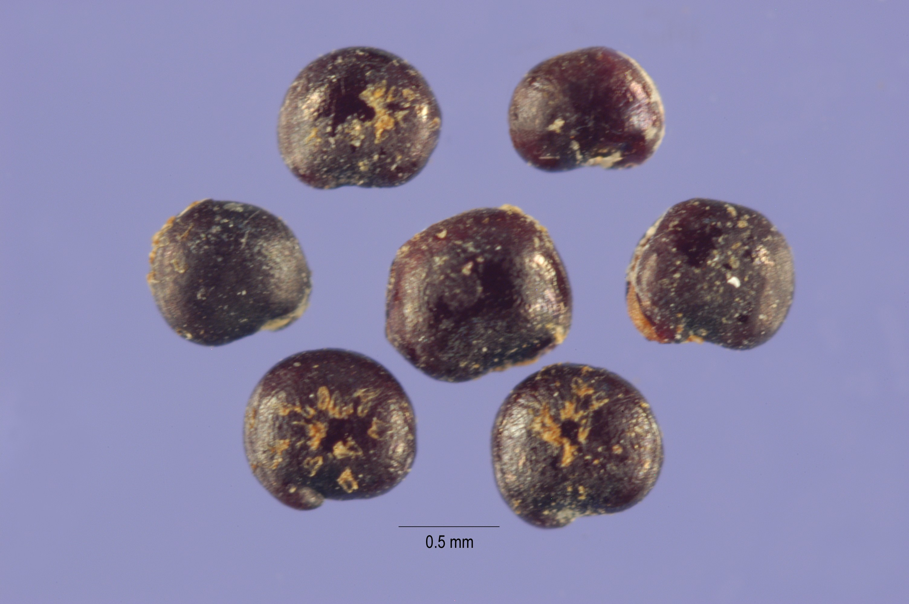 seeds of Atriplex patula from Carole Ritchie. Provided by ARS Systematic Botany and Mycology Laboratory. United States, MI, Bay City, West Bay City.